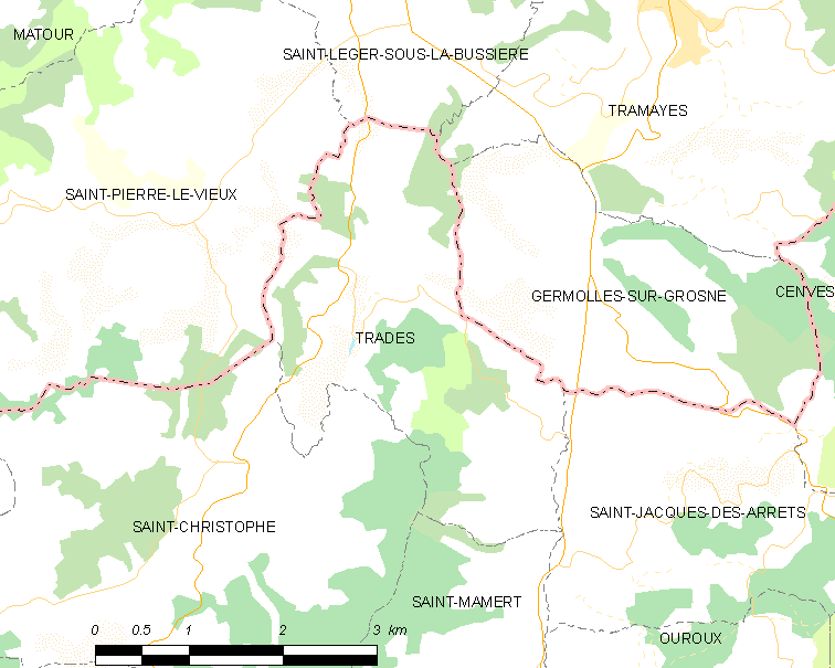 Map of French municipality